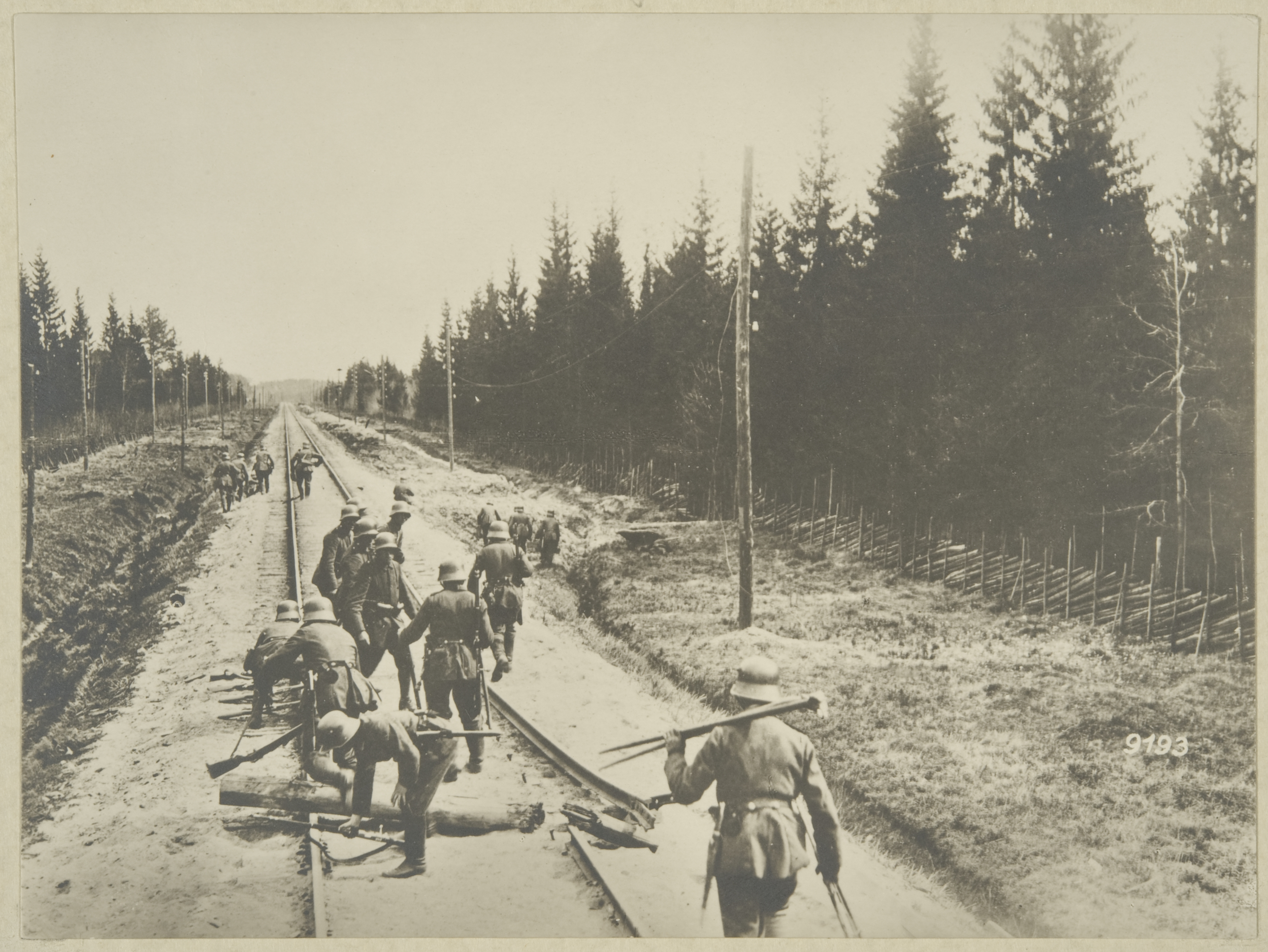 Military engineers of the German Baltic Sea Division fixing a track between Hanko and Helsinki during the 1918 Finnish Civil War.